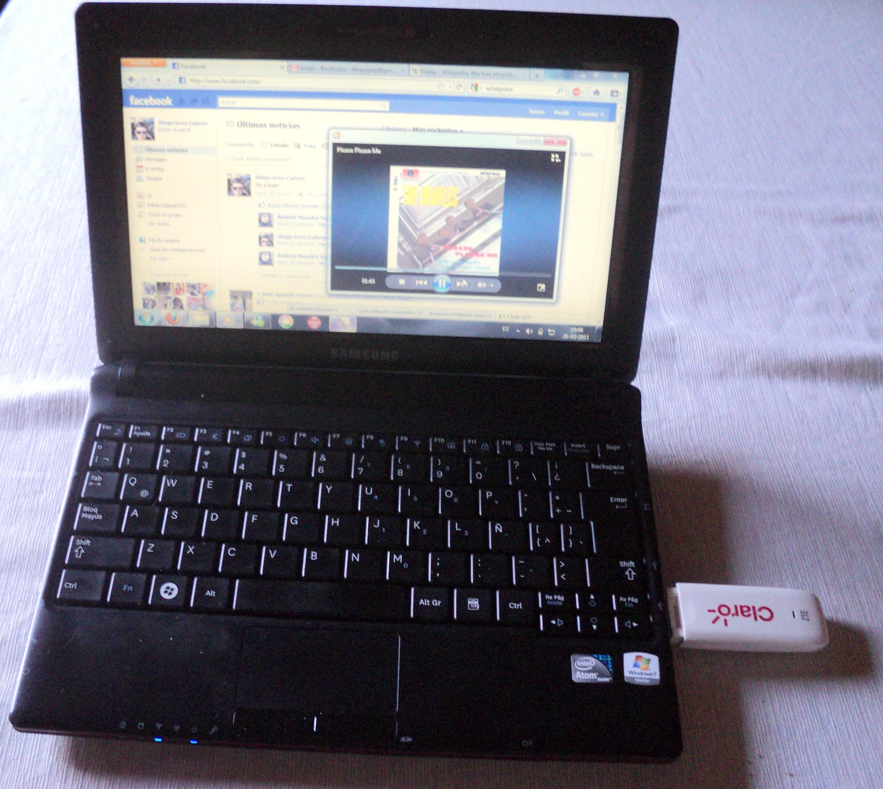 A Samsung netbook N145 plus.